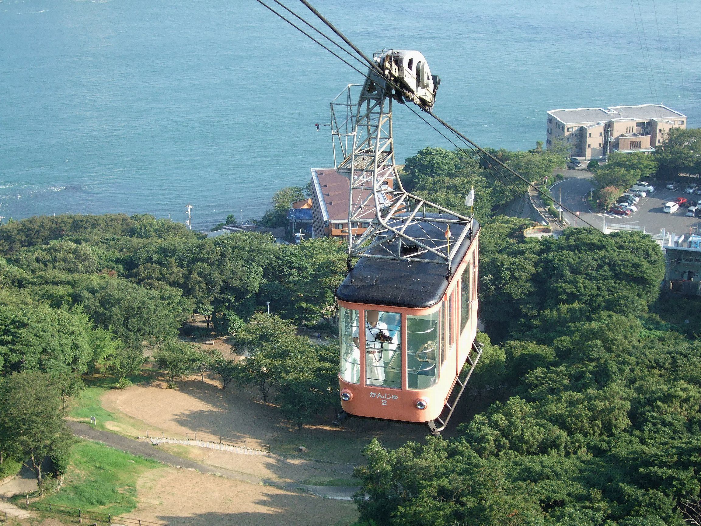 Hinoyama Ropeway No.2 ‘Kanju’, Shimonoseki, Yamaguchi, Japan.